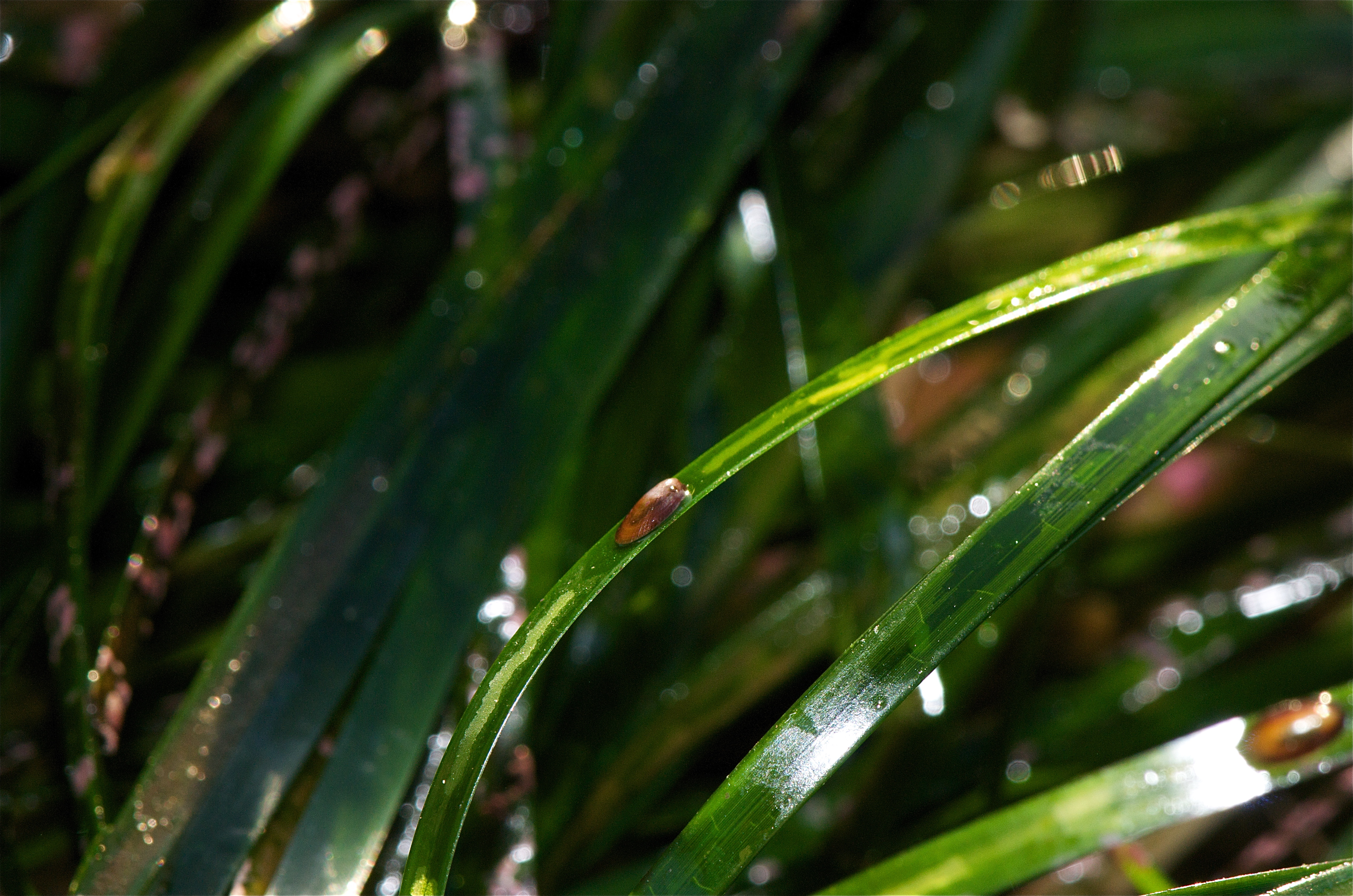 Habitat of Tectura palacea. This small limpet is only found on Surf Grass (Phyllospadix), and is a challenge to find too. It is about 1 - 1.5 mm in size.